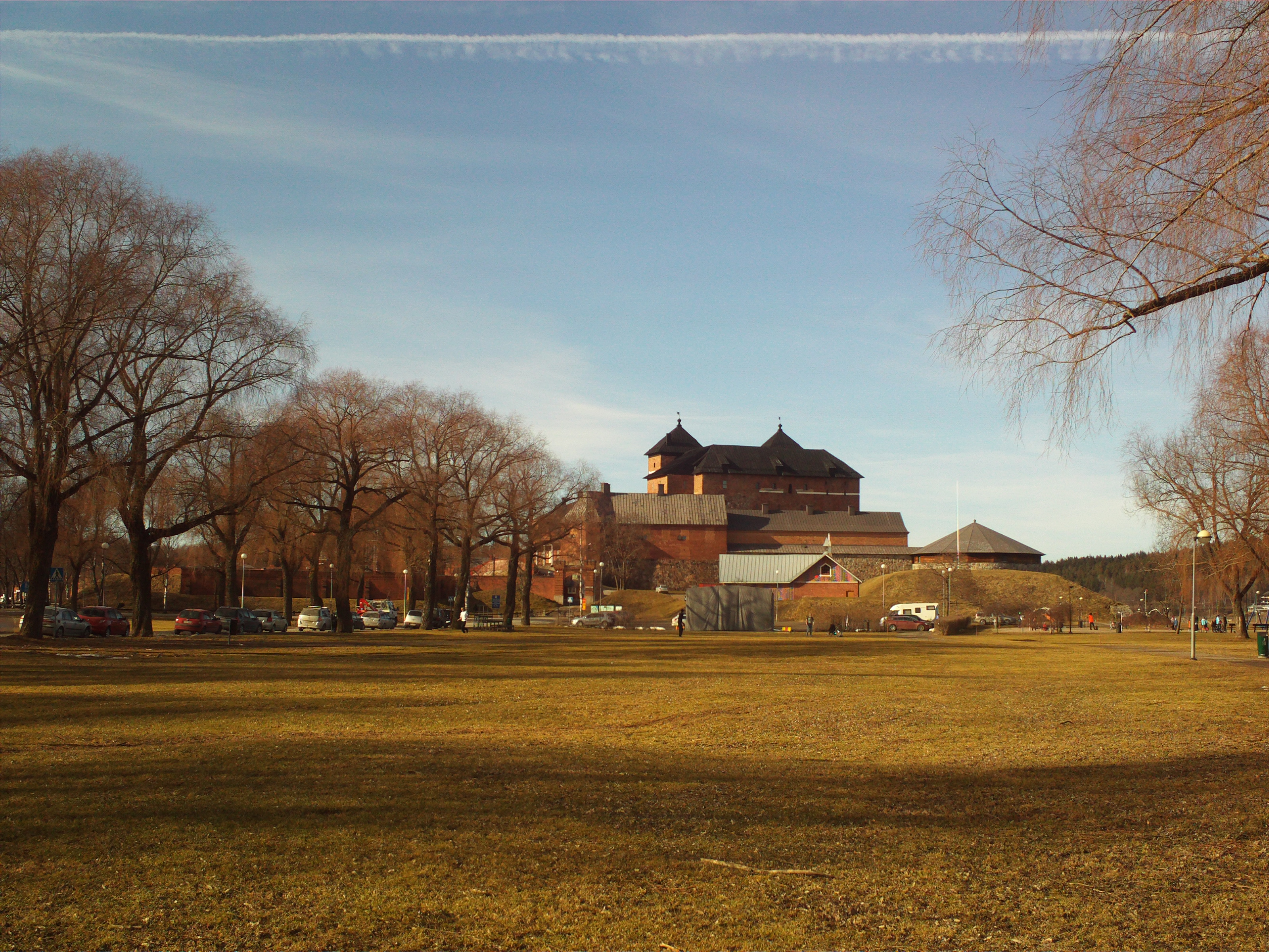 Häme castle seen from the south.